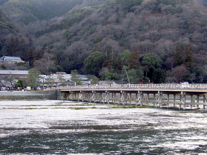 The famous bridge in Arashiyma - I'm told that it's bad luck to go there on a first date.... By definition, this is a pile bridge, and looking closely at the many long poles sunk into the river-bottom - you can imagine an ancient usage for the "Line of Holes" that run for miles across a Peruvian mountain. by searcher0777 on January 25, 2018Togetsukyo bridge